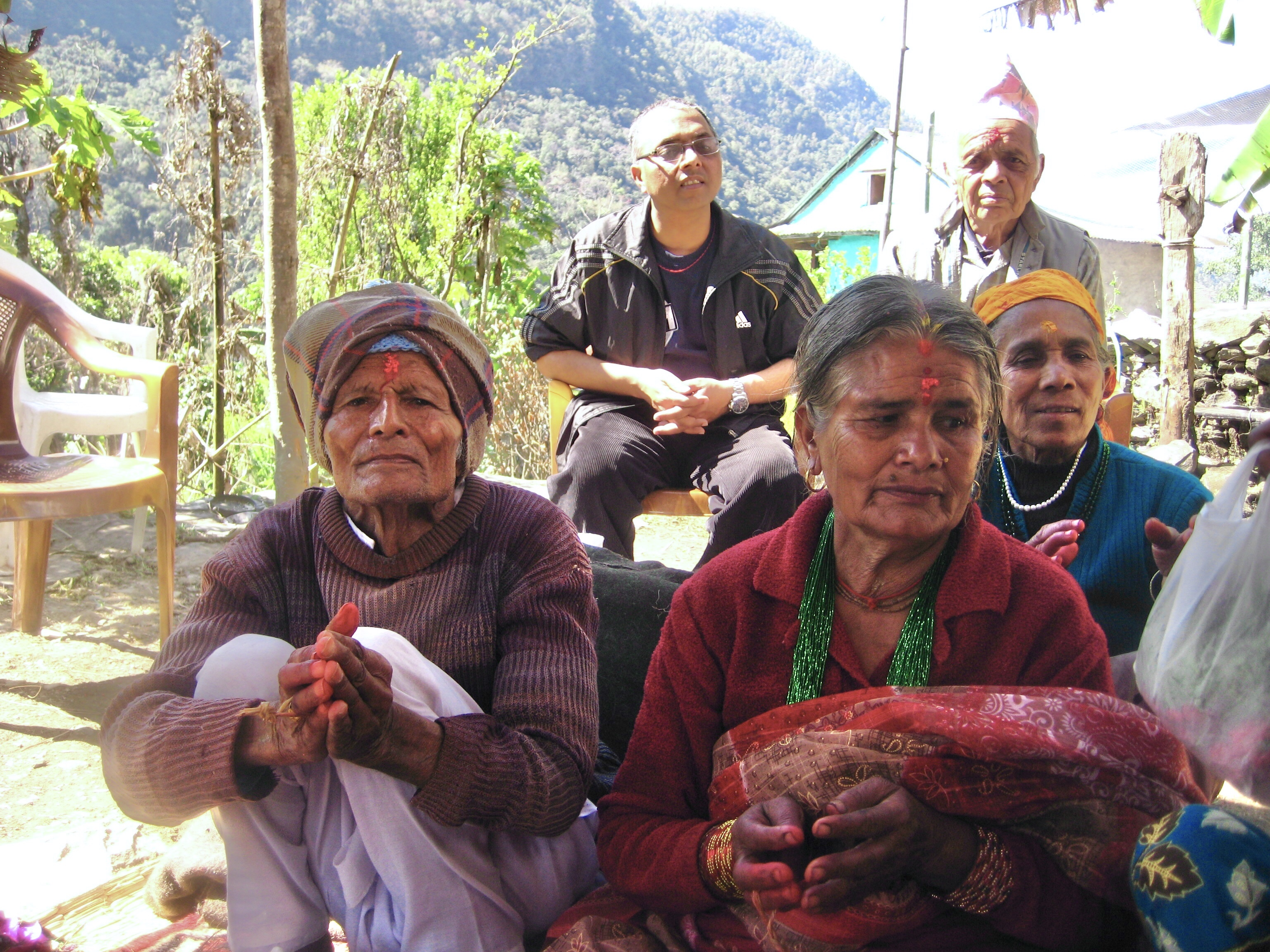 Duradanda-2, puranadehi (Tiwari Gaun) where people celebrating moons worship (Chaurasi Puja)